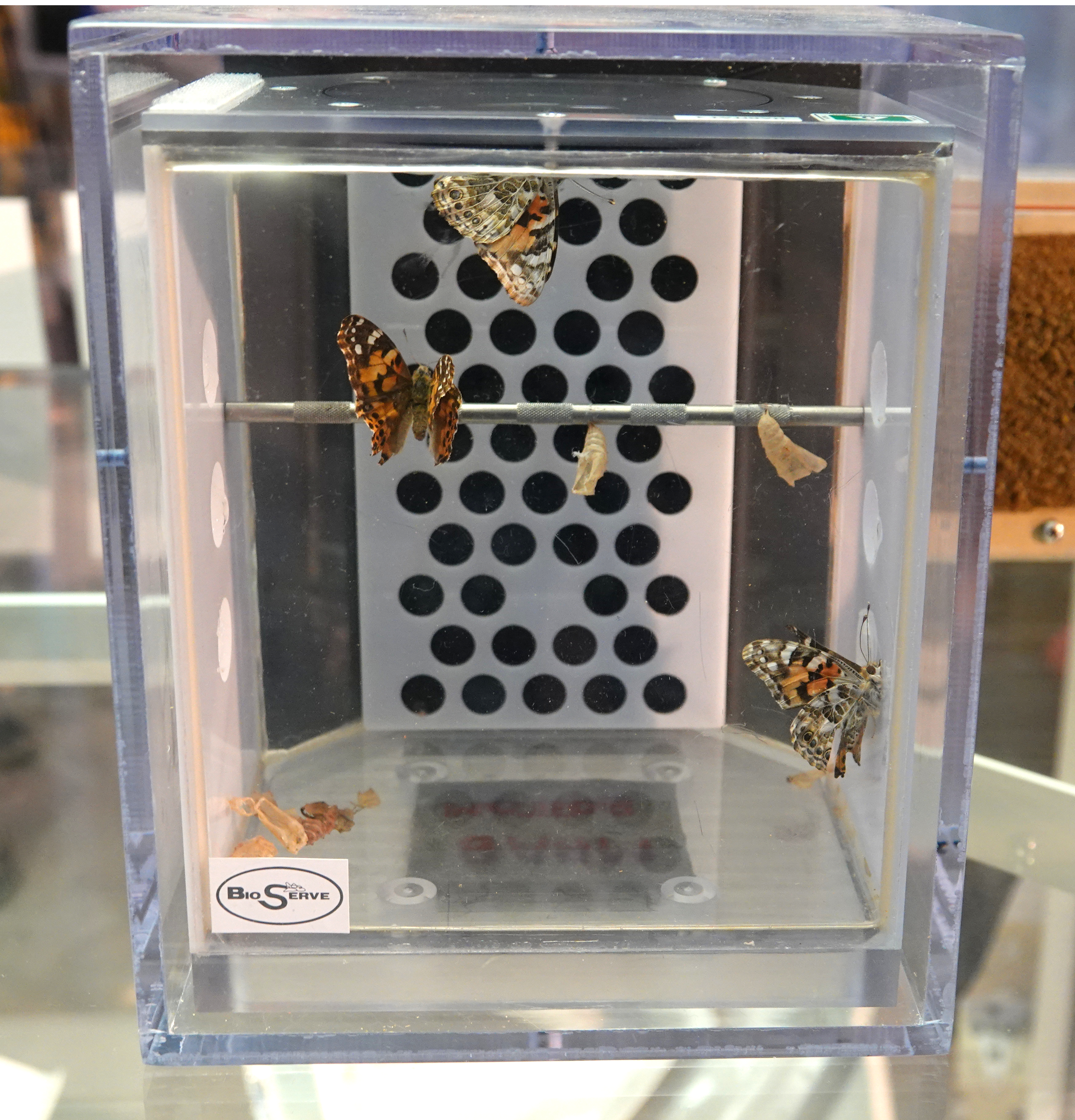 These Painted Ladies (Cynthia cardui) emerged from cocoons aboard Space Shuttle Columbia (STS-93) during a 1999 mission to become the first butterflies in space. They were part of a student experiment to investigate how weightlessness affects the butterﬂy life cycle. In a habitat container like this one, metamorphosis from caterpillars to larvae in cocoons to butterflies occurred successfully without the influence of gravity. Picture taken at the National Air and Space Museum's Steven F. Udvar-Hazy Center in Chantilly, Virginia, USA. Butterflies gift of Dougherty County School System High School/High Tech Program, Albany, Ga. Habitat gift of BioServe Space Technologies